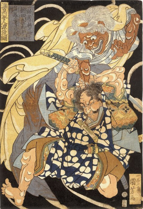 Kuniyoshi Ichiyusai, Imperial Bodyguard Fighting with a Demon (Takiguchi udoneri, Watanage no Tsuna), pub. Kawaguchi-ya Uhei, 1825. 20" x 24". The print depicts the warrior Watanabe no Tsuna cutting the arm off the demon Ibaraki.